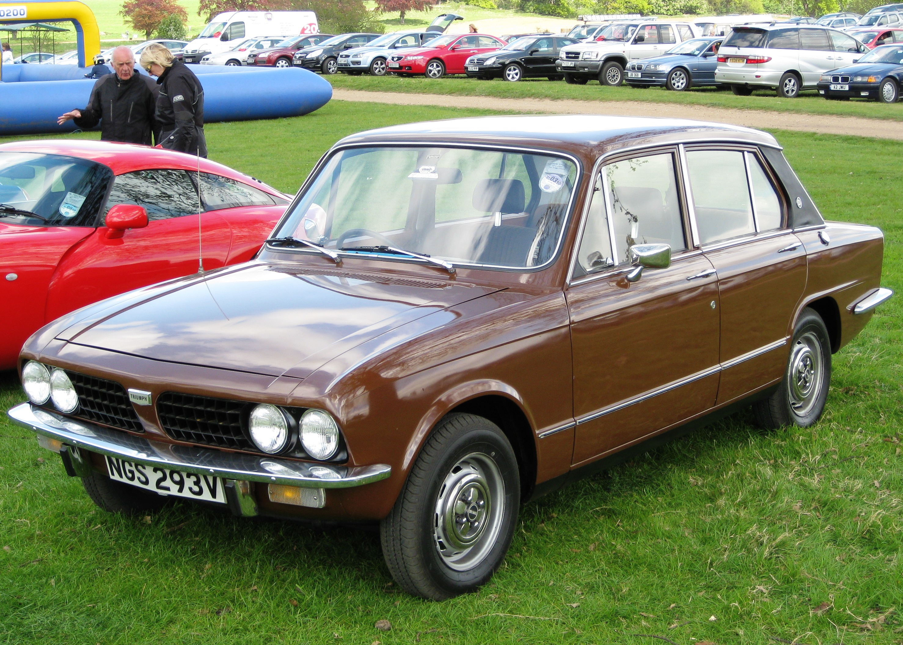 Triumph Dolomite 1500. The body shell was the same as that of the earlier Triumph 1500 and front wheel drive had been replaced by rear wheel drive, presumably in order to save on cost and complexity during the production process, and Dolomite style black vinyl pillars and grill were included, along with the Dolomite name, in a desperate effort to give the car more cachet.